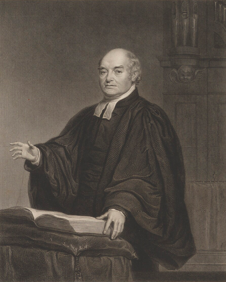 Portrait of John Yates (1755–1826), English Unitarian minister in Liverpool.